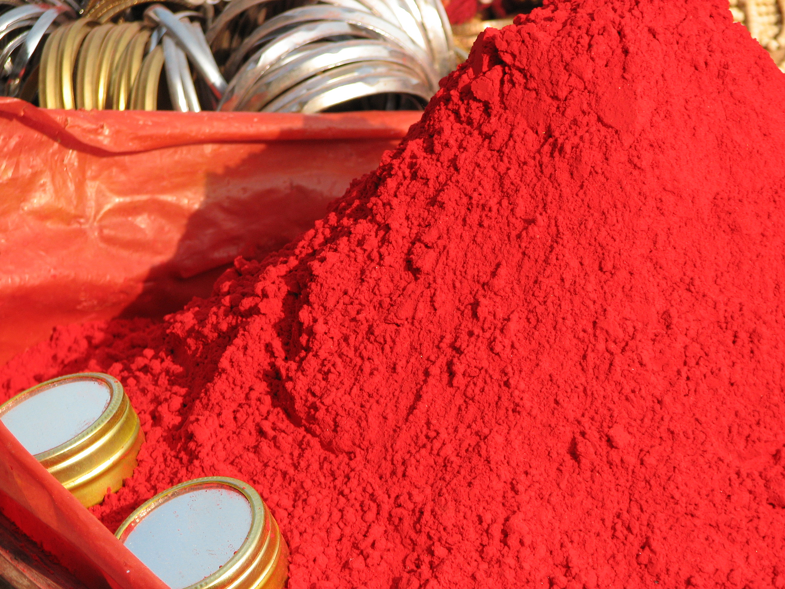 I love the rich colour of the tikka powder for sale in Haridwar.